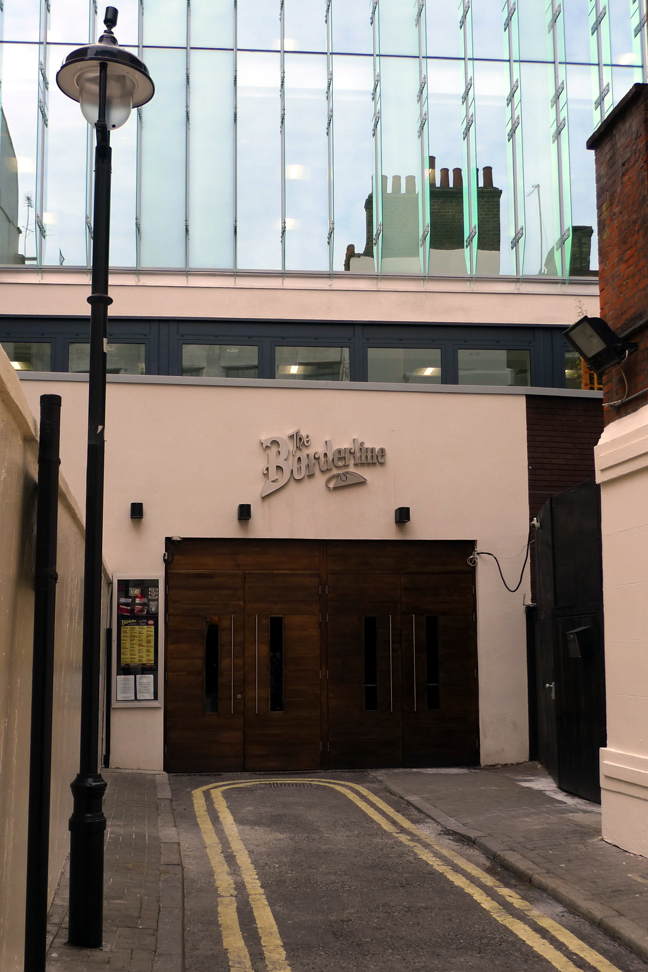 Borderline, a small rock club just off Tottenham Court Road at 16 Manette Street